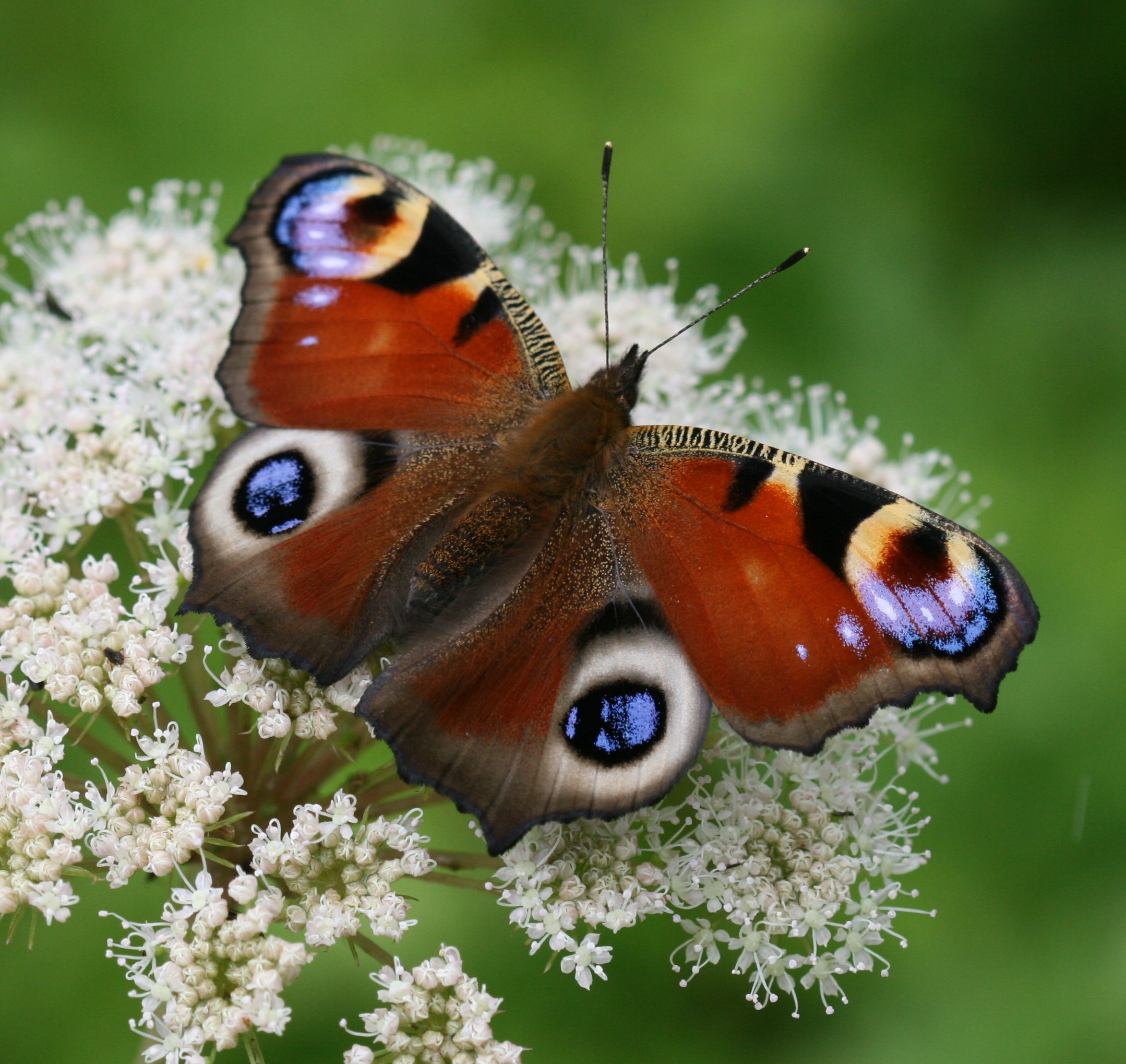 European Peacock Butterfly